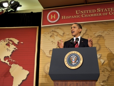 President Barack Obama gives remarks on education at the Hispanic Chamber of Commerce gathering Tuesday, March 10, 2009, in Washington at the Washington Marriott Metro Center's Grand Ballroom.